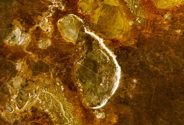 Lake Mungo, a dry lake in Australia. Famous archeological site. Lake Mungo is the brown area in the centre, the white line is the Walls of China, a series of sand dunes. The southern portion of Lake Leaghur is visible in the top of the picture.